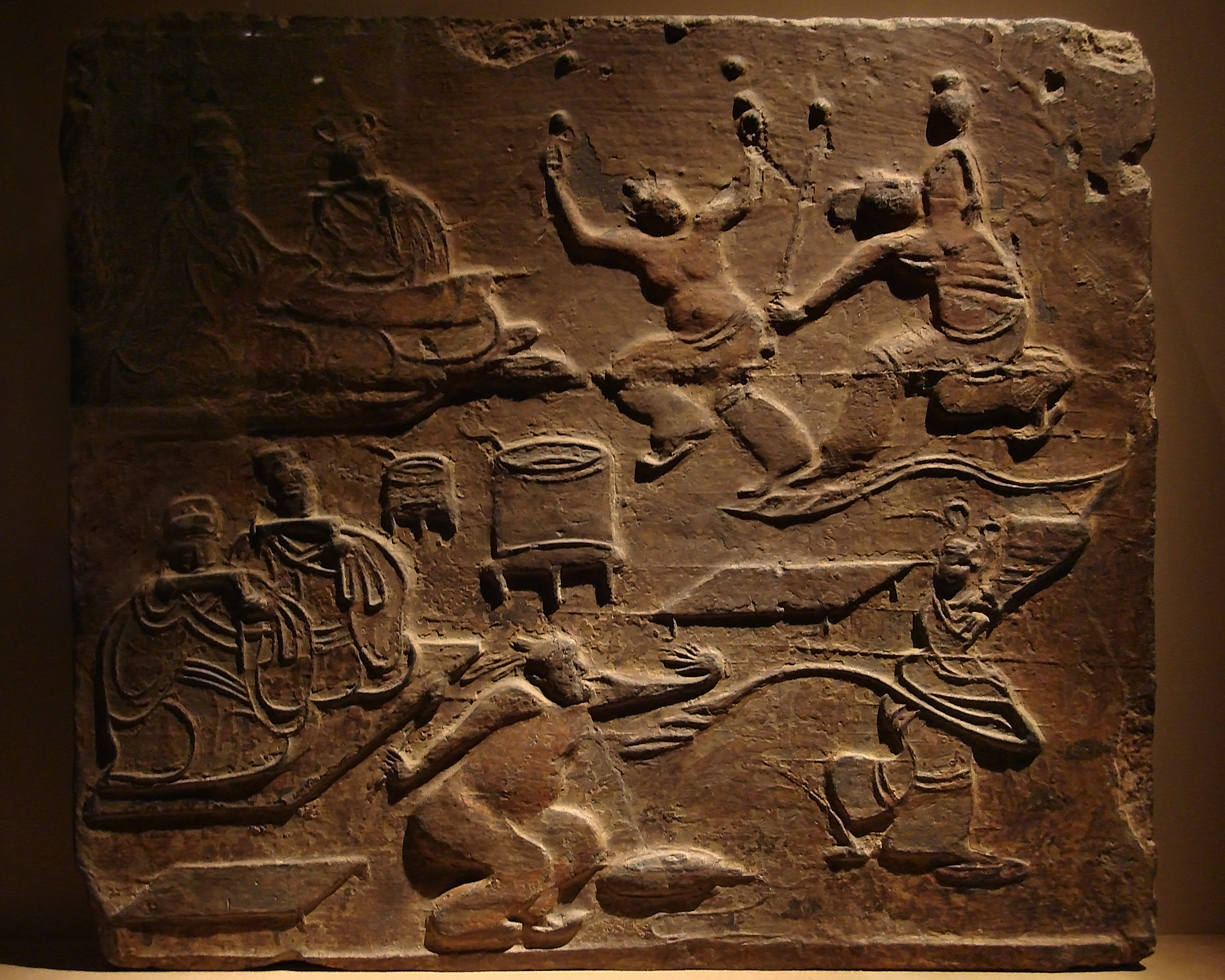 Pictorial brick depicting acrobats performing at a banquet Eastern Han Dynasty (A.D. 25 - 220) Excavated at Chengdu, Sichuan Province, 1954 From a tomb chamber, this pictorial brick depicts the deceased wearing a long hat and gown, watching musicians and acrobats perform while accompanied by a female musician. Two men juggle while a woman dances with long scarves, accompanied by a drummer; the empty table in the centre indicates the performance followed a banquet.